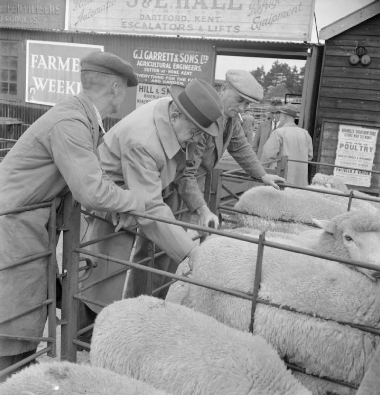 Cattle Market- Everyday Life at Cattle Markets in Kent, England, UK, 1944 Local butcher George Challis (centre) smokes his pipe as he selects sheep in a pen at Maidstone cattle market.